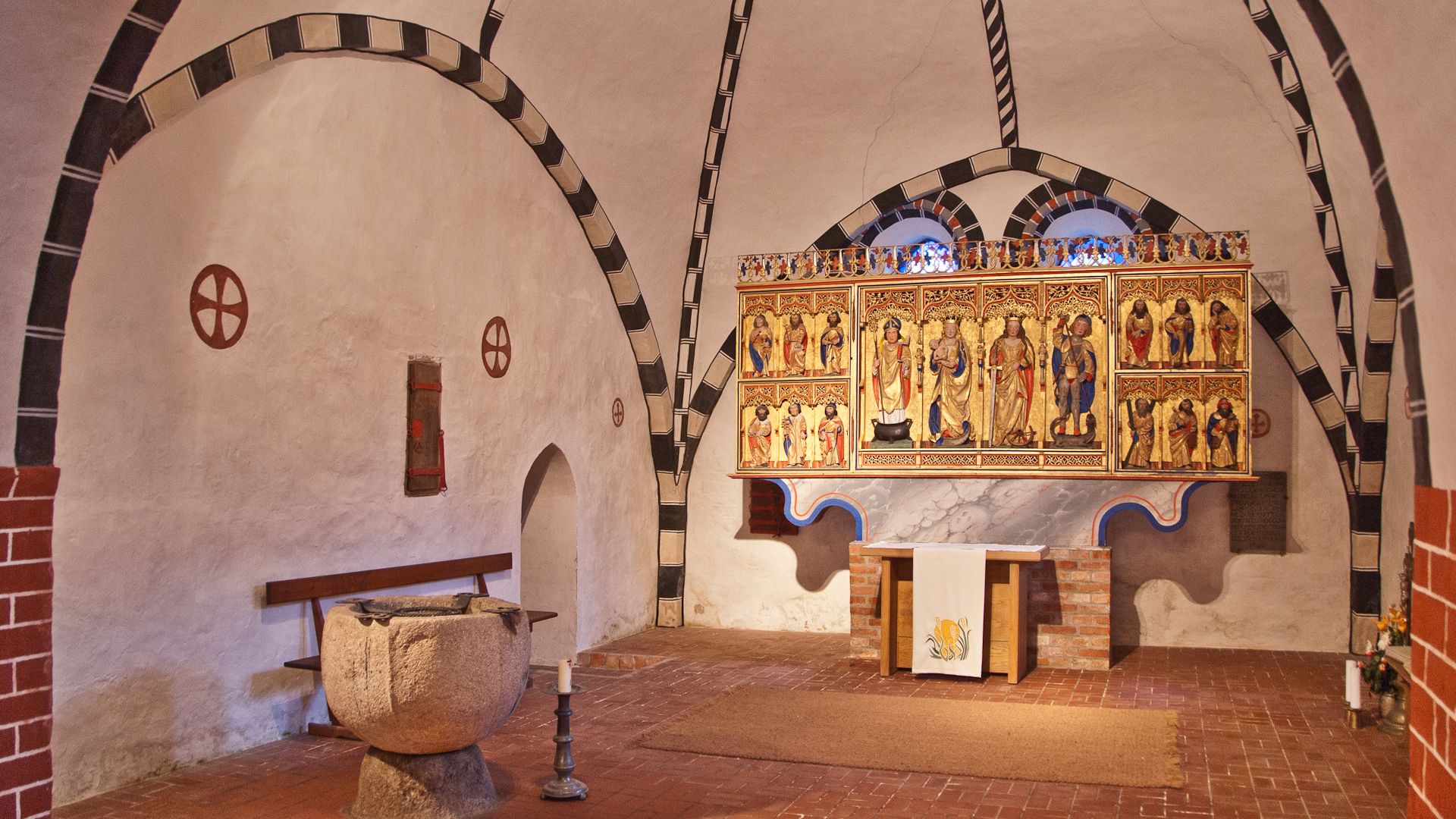 Church in Bernitt (choir), disctrict Güstrow, Mecklenburg-Vorpommern, Germany